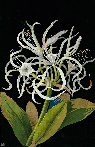 Pancratium maritimum L. - Paper collage botanical